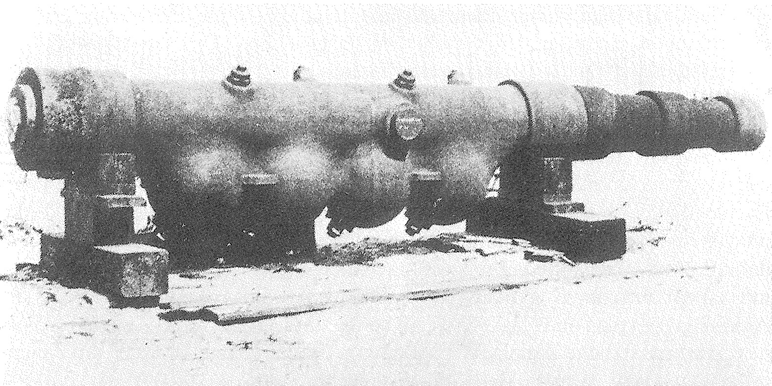 Cannon working on the multi-charge principle of the american inventors Azel S. Lyman und James Richard Haskell from 1883. Main propellant 60 kg gunpowder auxiliary propellants 12.7 kg each.